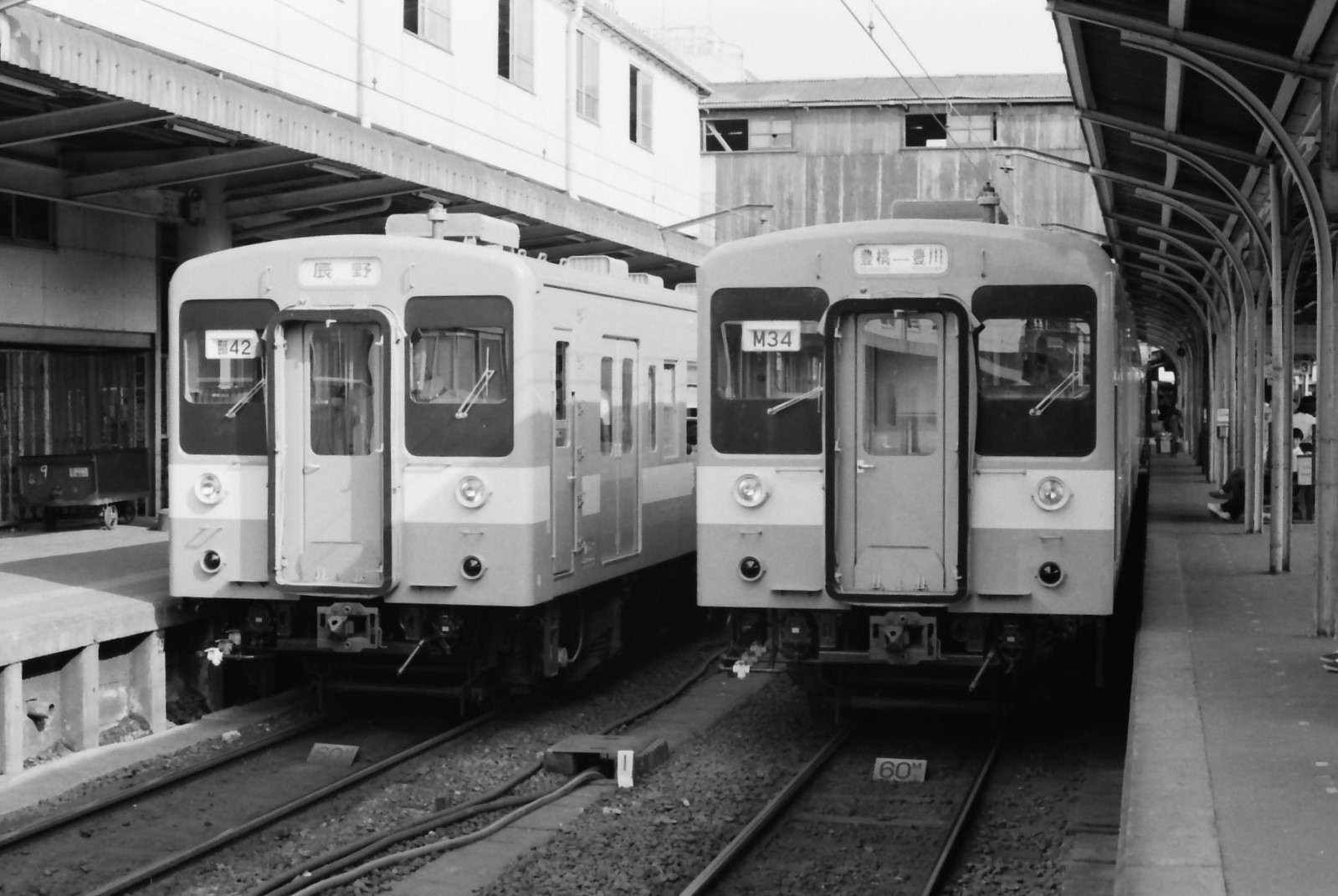 JNR 119 series EMUs at Toyohashi Station (the set on the right was manufactured in 1982 and the set on the left was manufactured in 1983)